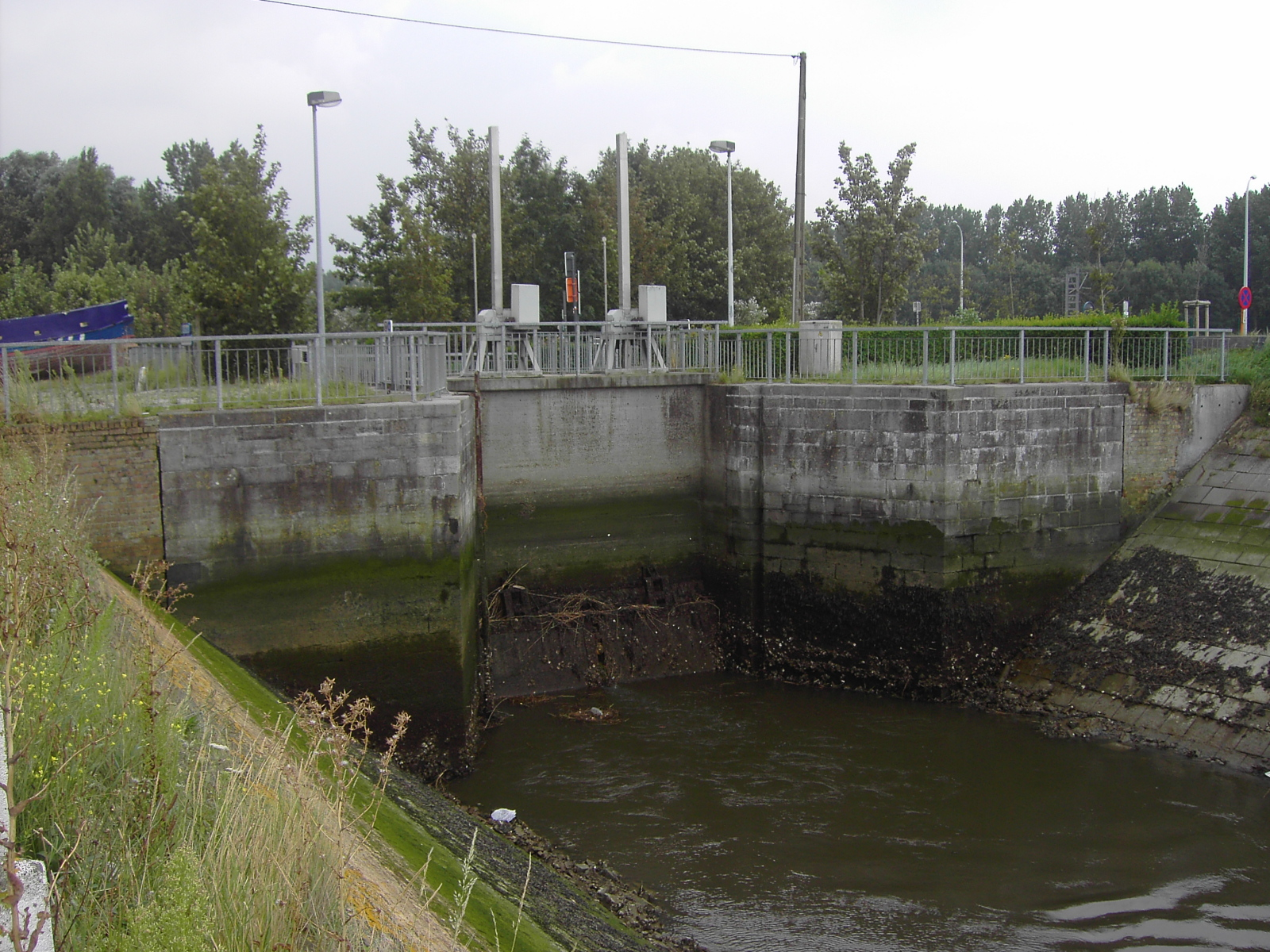 Floodgate on the Oude Veurnevaart; the hinged door